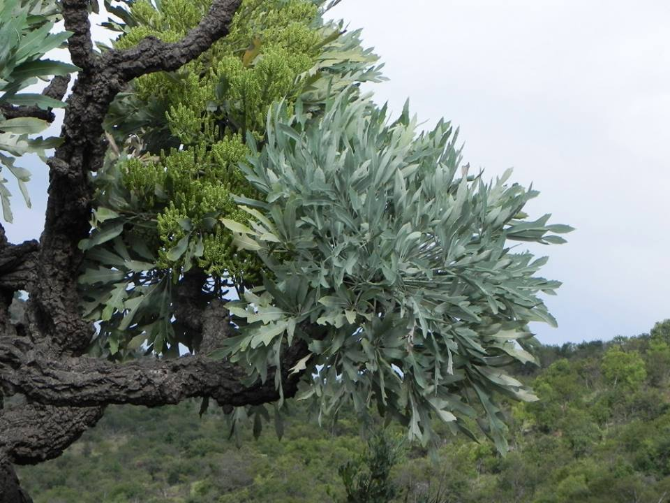 Cussonia paniculata, Queenstown area, South Africa